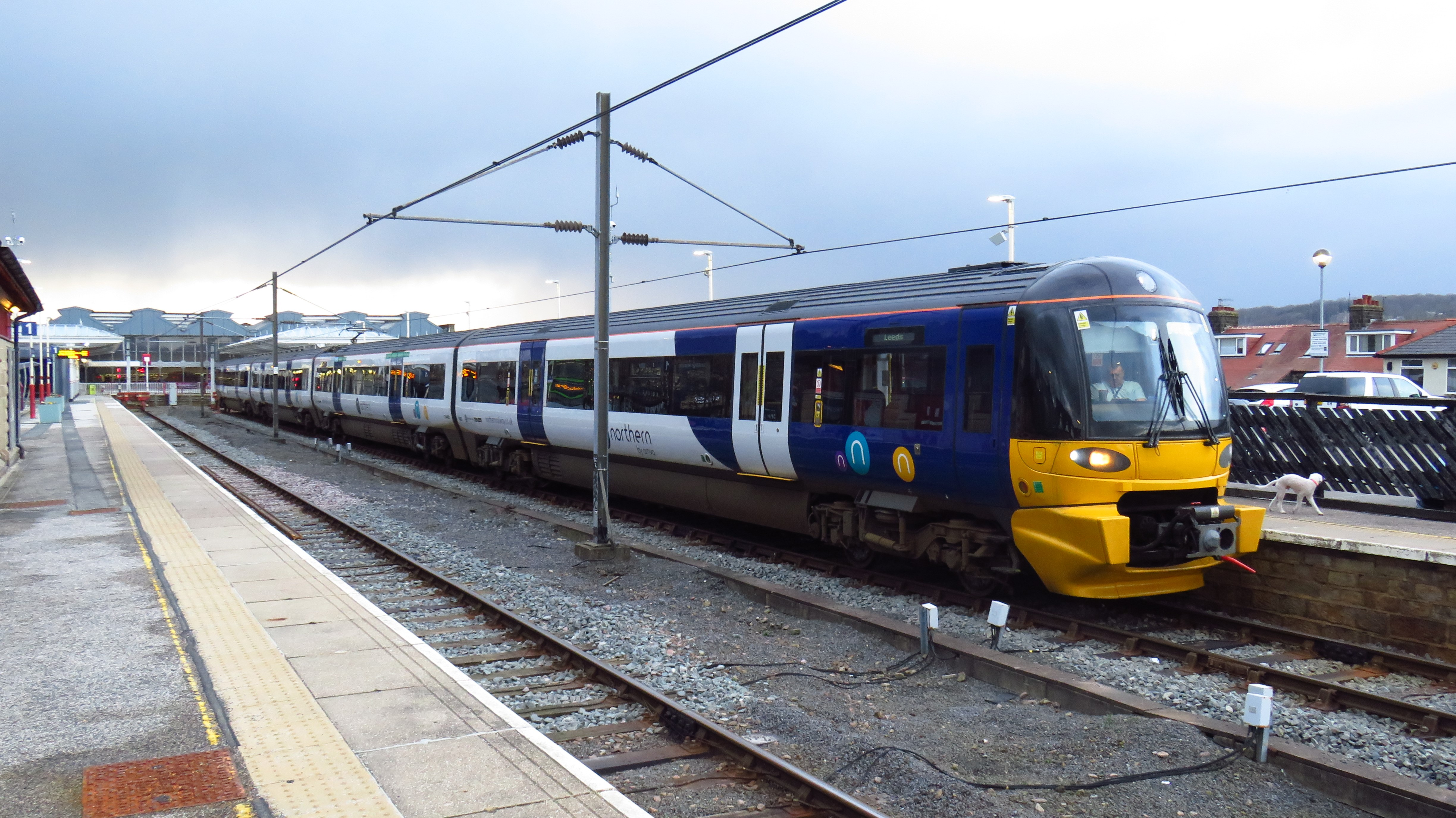 Northern (By Arriva) white livery Class 333